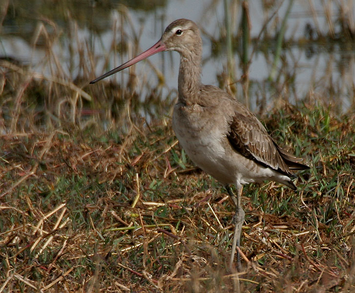 Black-tailed Goodwit Limosa limosa near Hodal, Faridabad, Haryana, India.